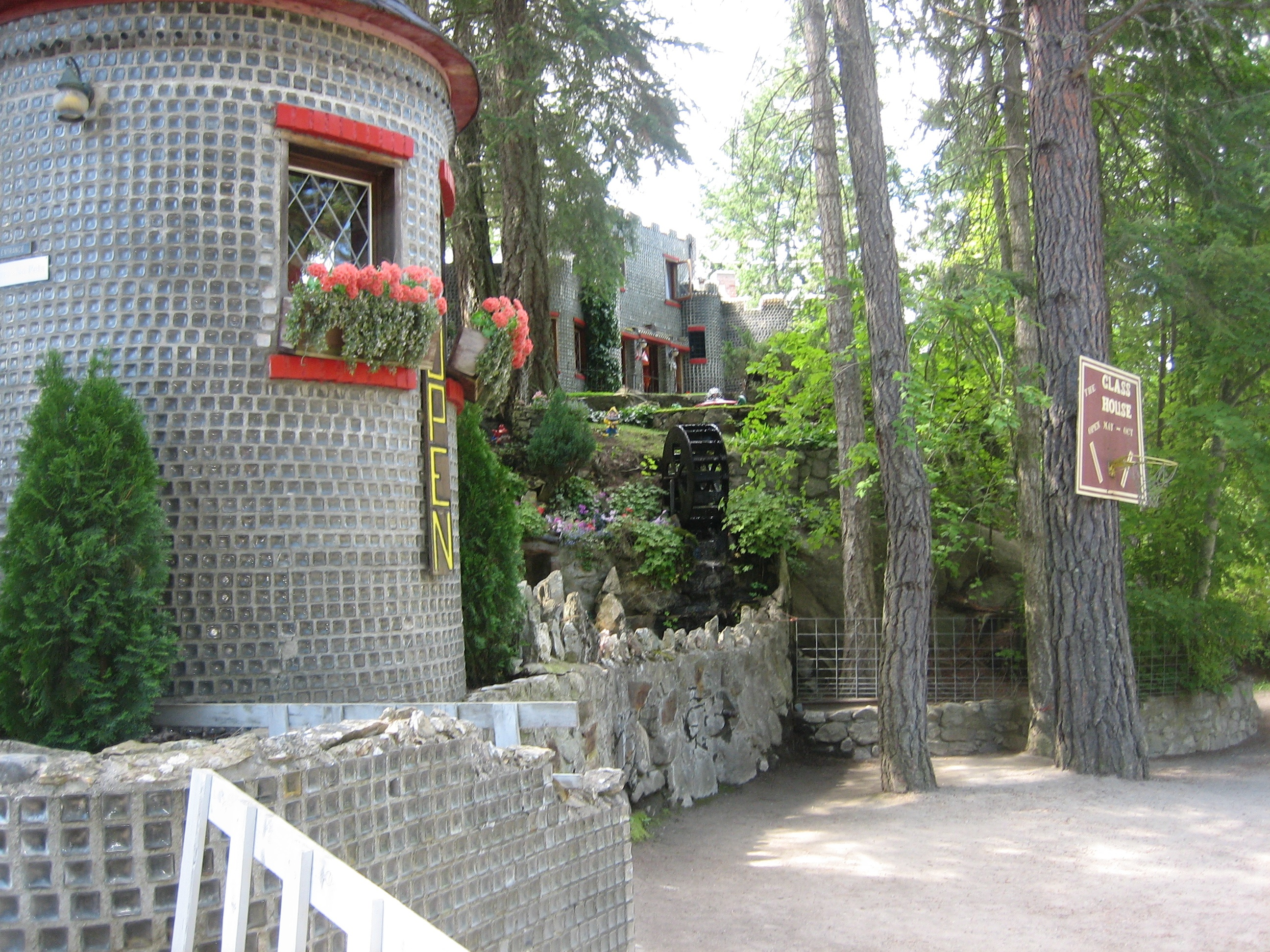 View of the Glass House near Boswell, British Columbia from the parking look, looking slightly west of north.